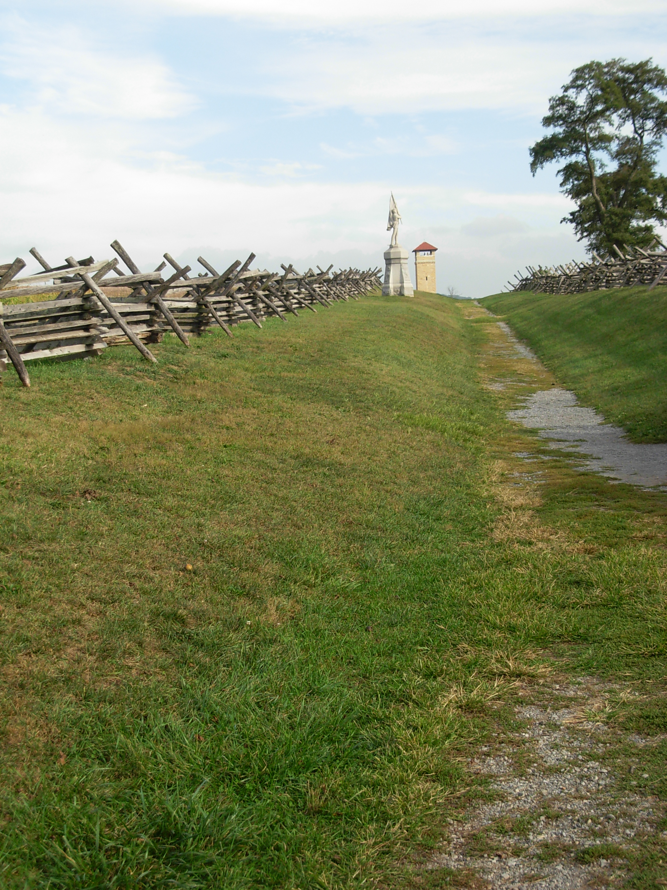 Sunken "Bloody Lane" of the Battle of Antietam. At the memorial Antietam National Battlefield, in northwestern Maryland.